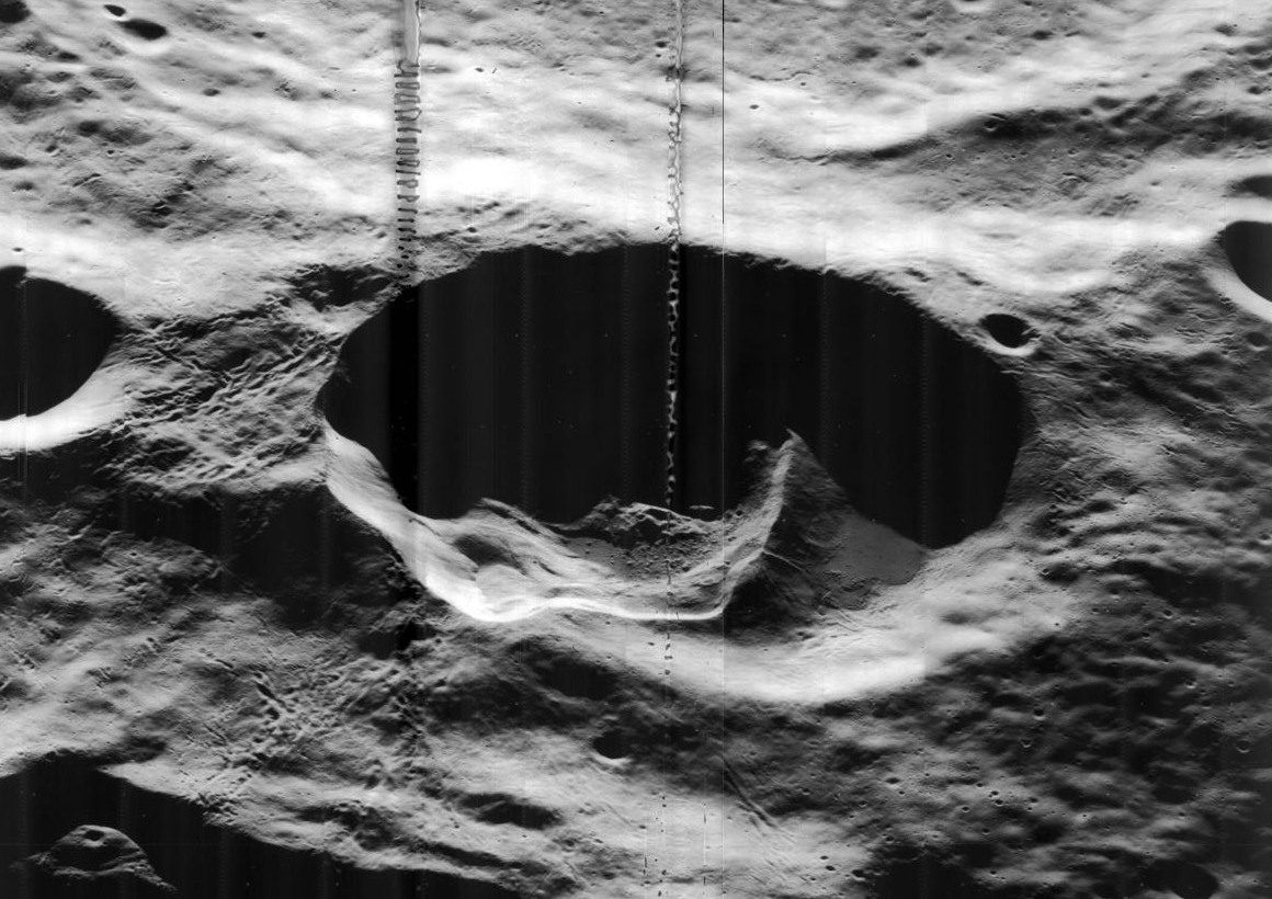 Oblique view of Wiener F crater, northeast of Wiener crater, on the far side of the moon, facing west. Vertical rows of spots are blemishes on original.